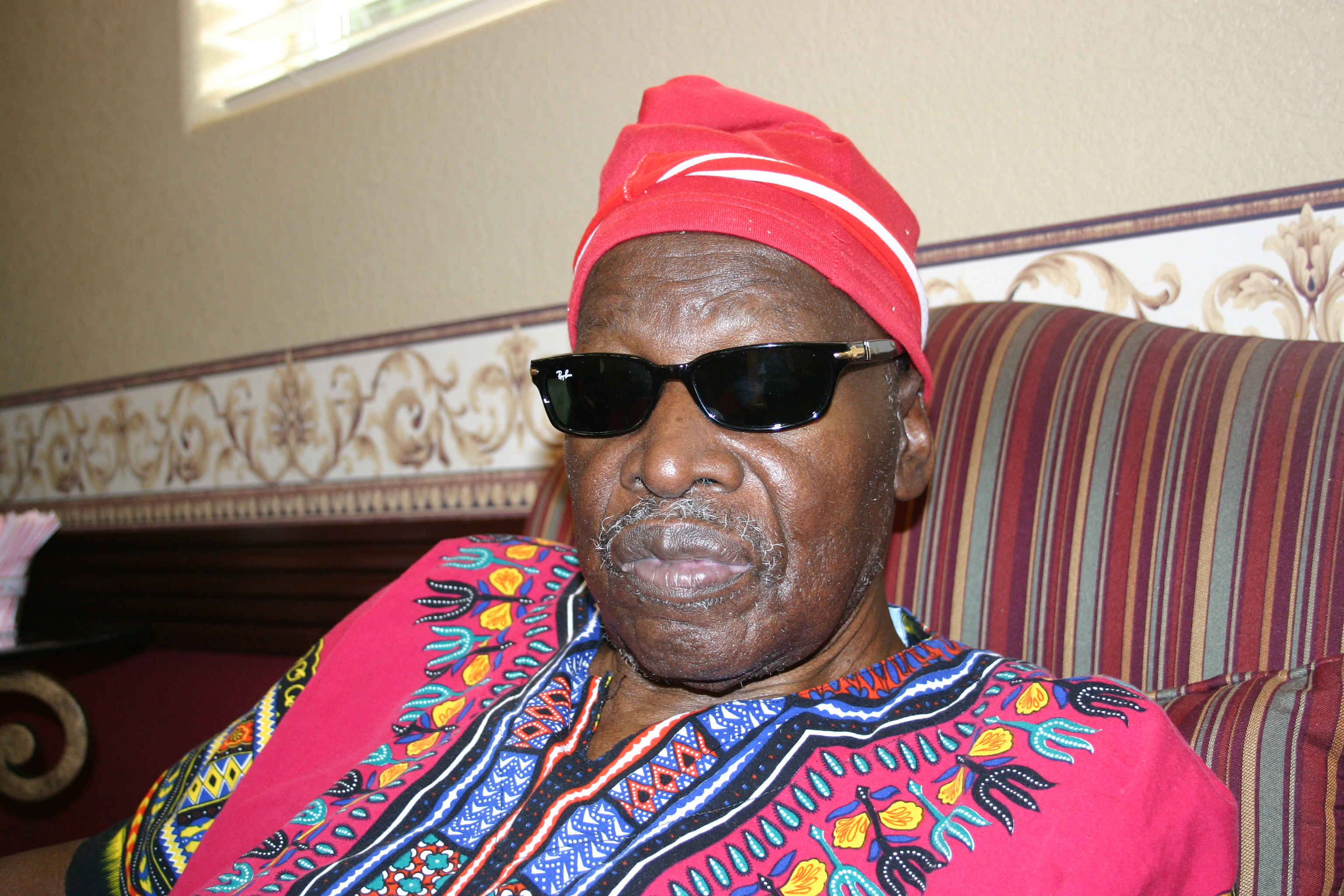 I took this photo of Rudy Ray Moore in December of 2007. Photo courtesy of .